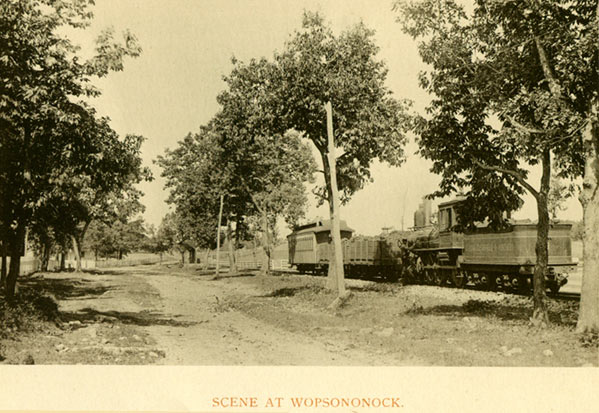 Picture of a train on the Altoona, Clearfield and Northern Railroad at Wopsononock, Pennsylvania in 1893. The train is ready to back down the mountain, as wyes were not installed to turn its engines until late 1894.